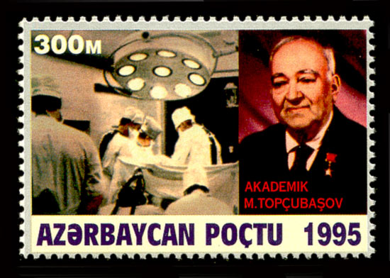 Devoted to the great medical scientist, public figure Mustafa Aga bay oglu Topchubashev.